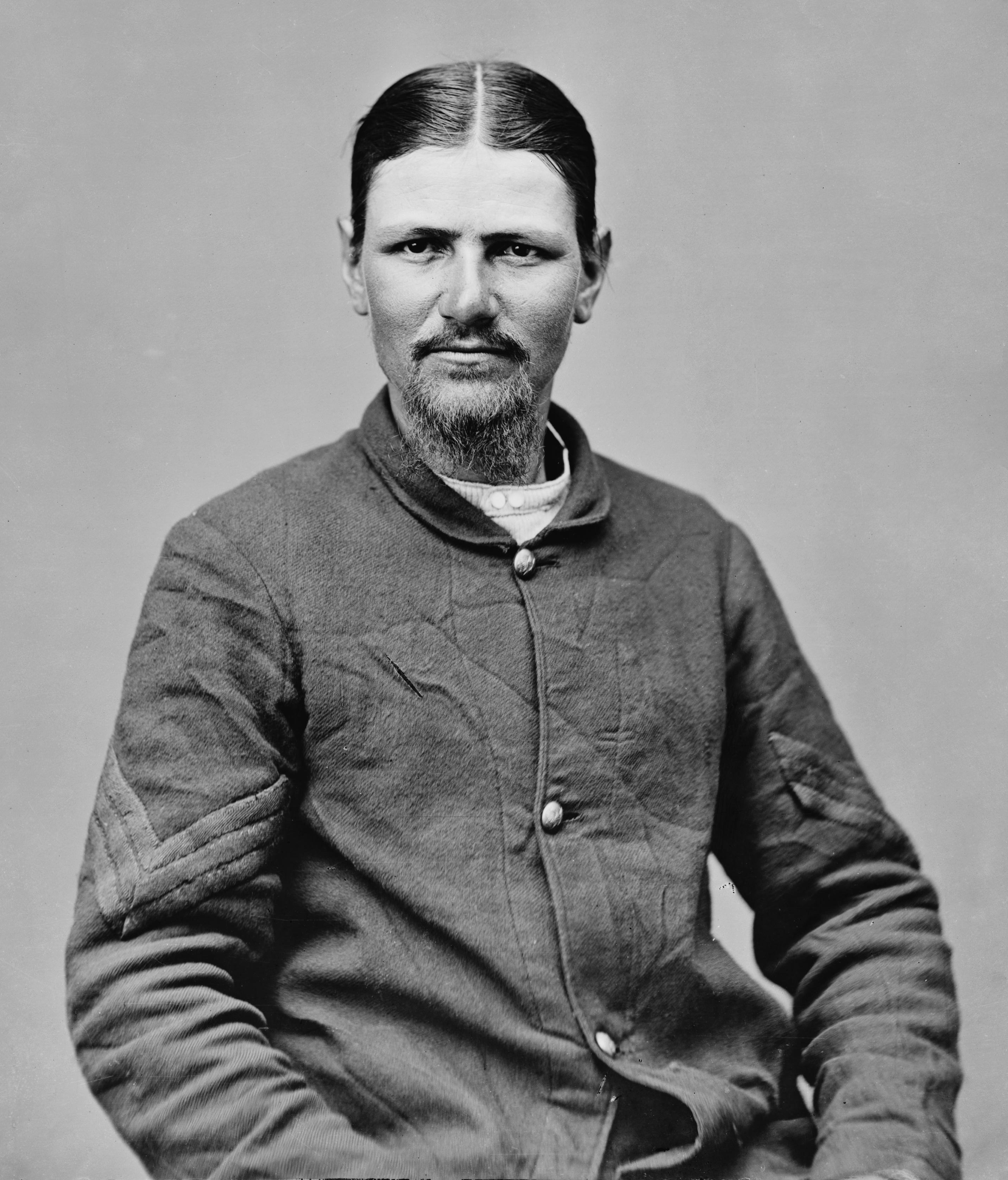 Boston Corbett. Library of Congress description: "Sgt. Boston Corbett, U.S.A."